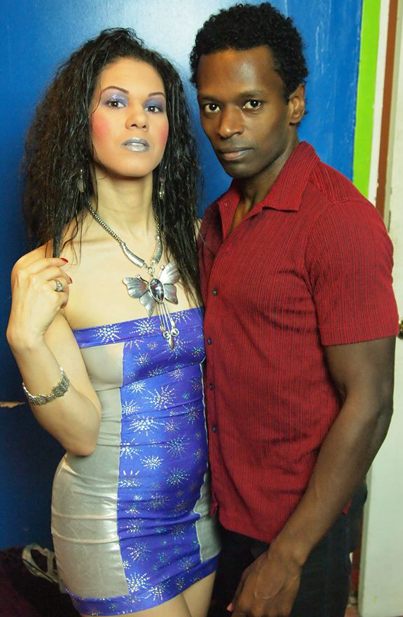 Sean Weathers on the right and Sybelle Silverpheonix on set of "The Fappening."